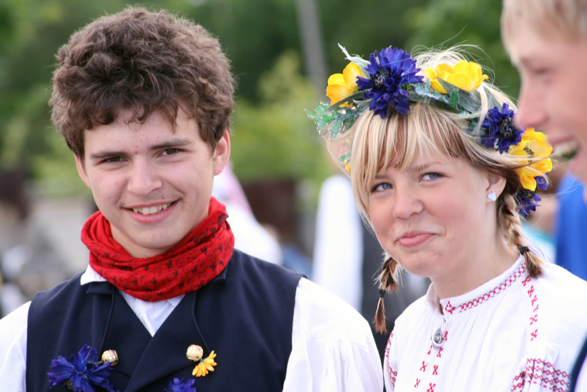 Tallinn dance festival 2009